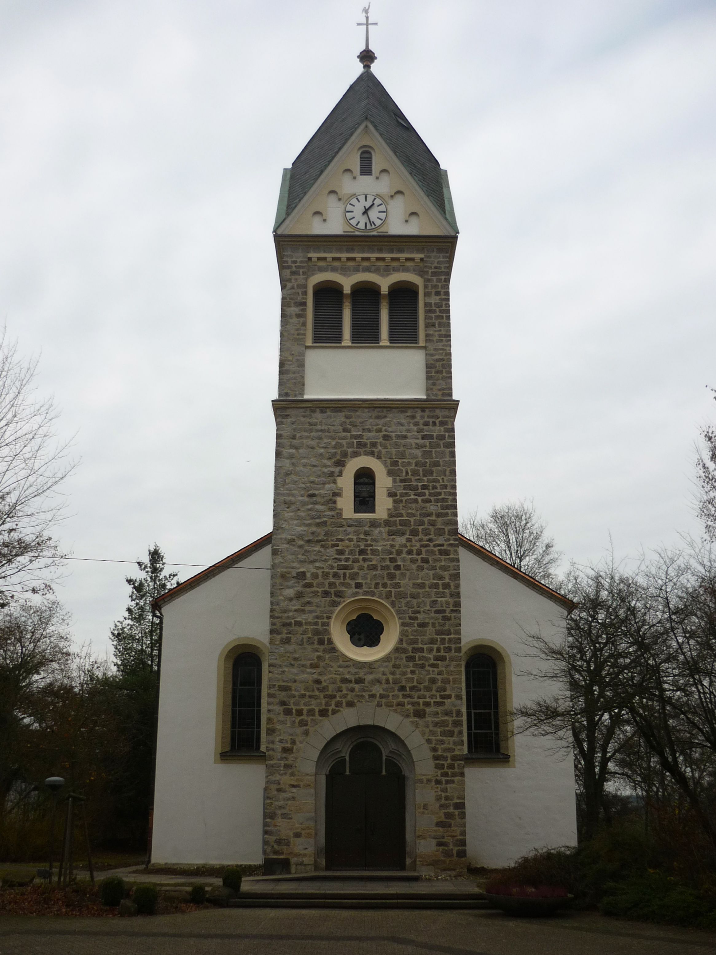 church in Schoeneberg westerwald